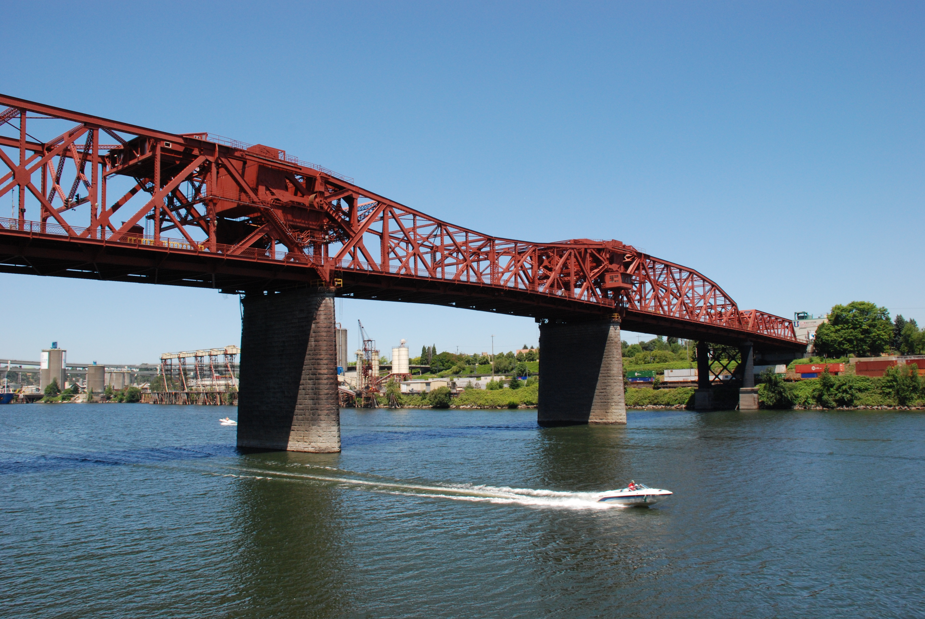 The Broadway Bridge (central span and northern/eastern section), in Portland, Oregon, viewed from the southwest.